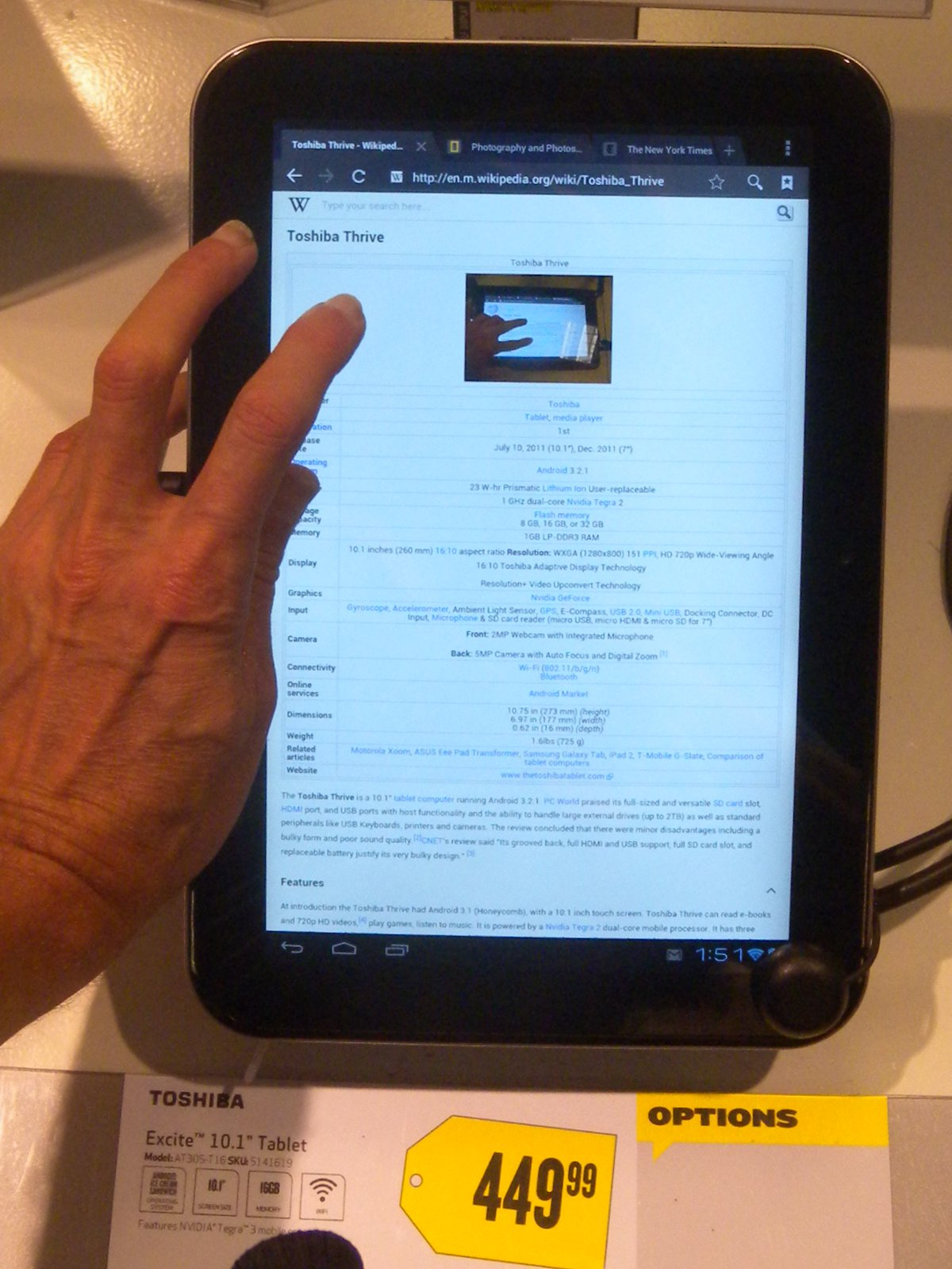 Tablet computer at B&H Photo.